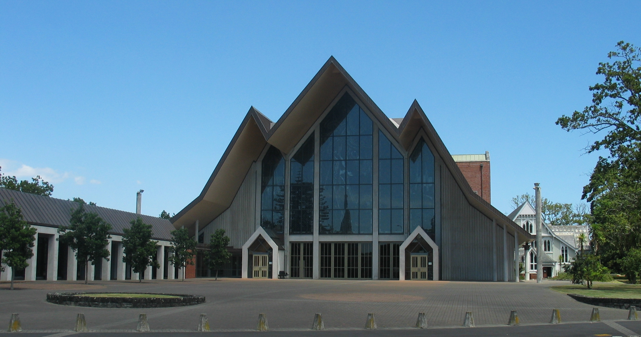 Taken from the North on 17 January 2006. St Mary's church is visible behind the Cathedral.